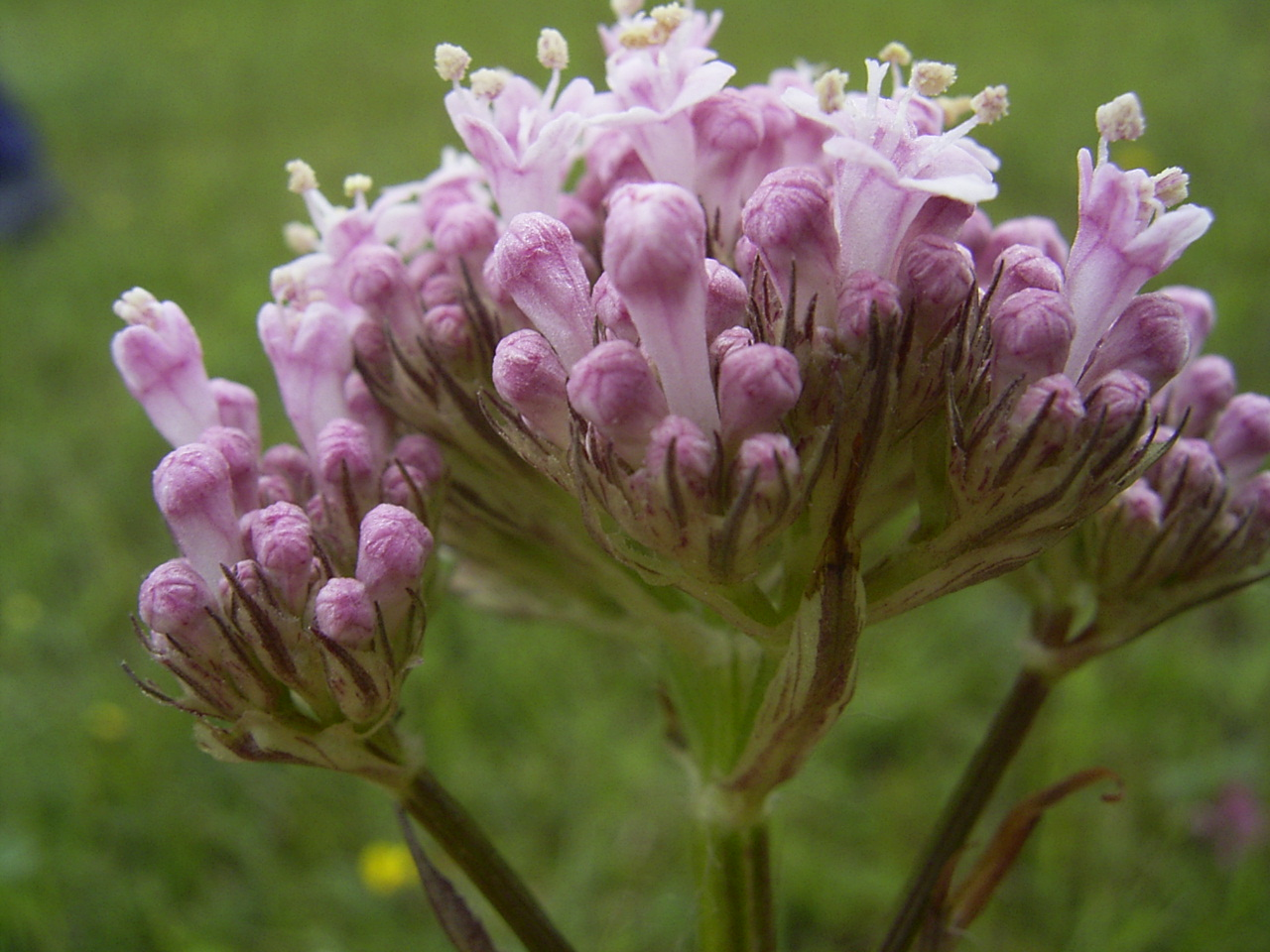 This photo shows the flowers of Valeriana dioica